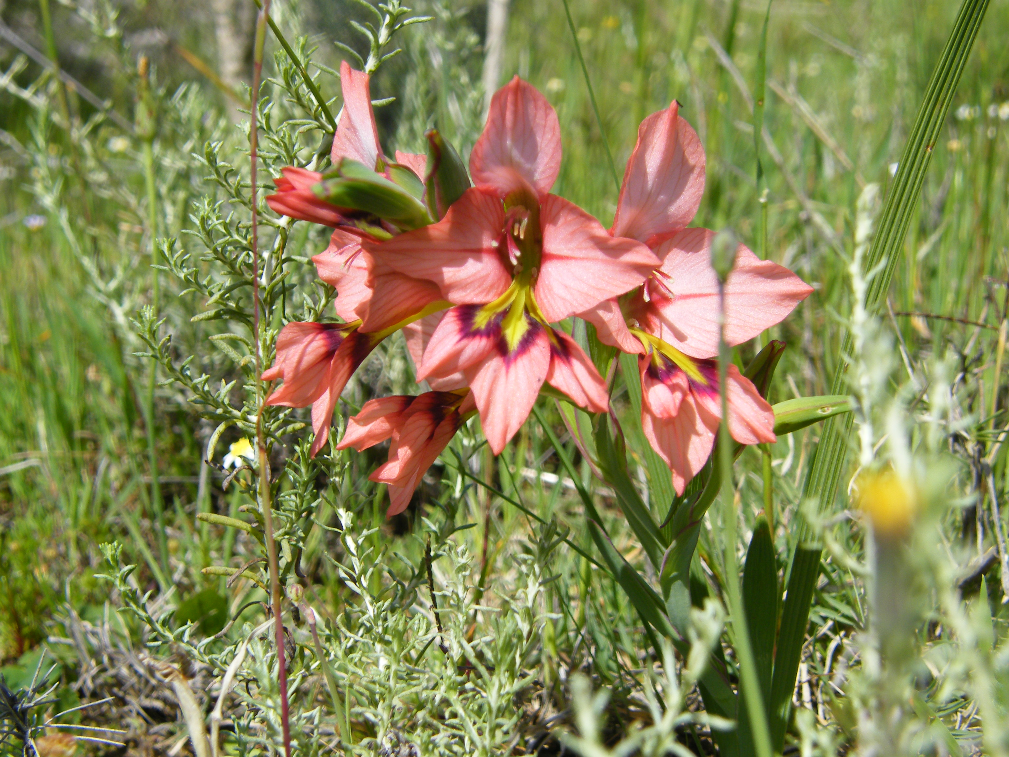 Darling Area South Africa.